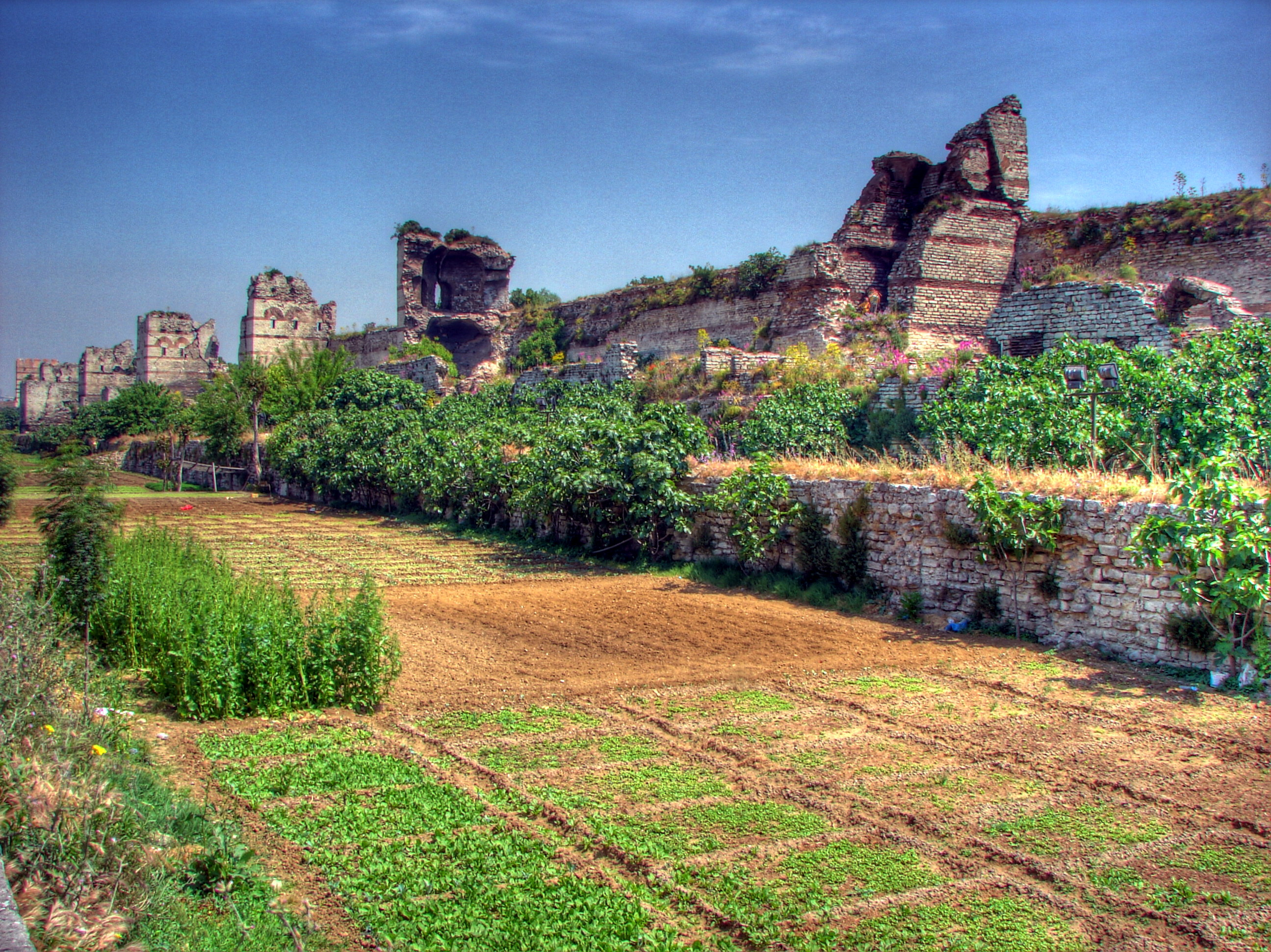 Walls of Constantinople, Istanbul